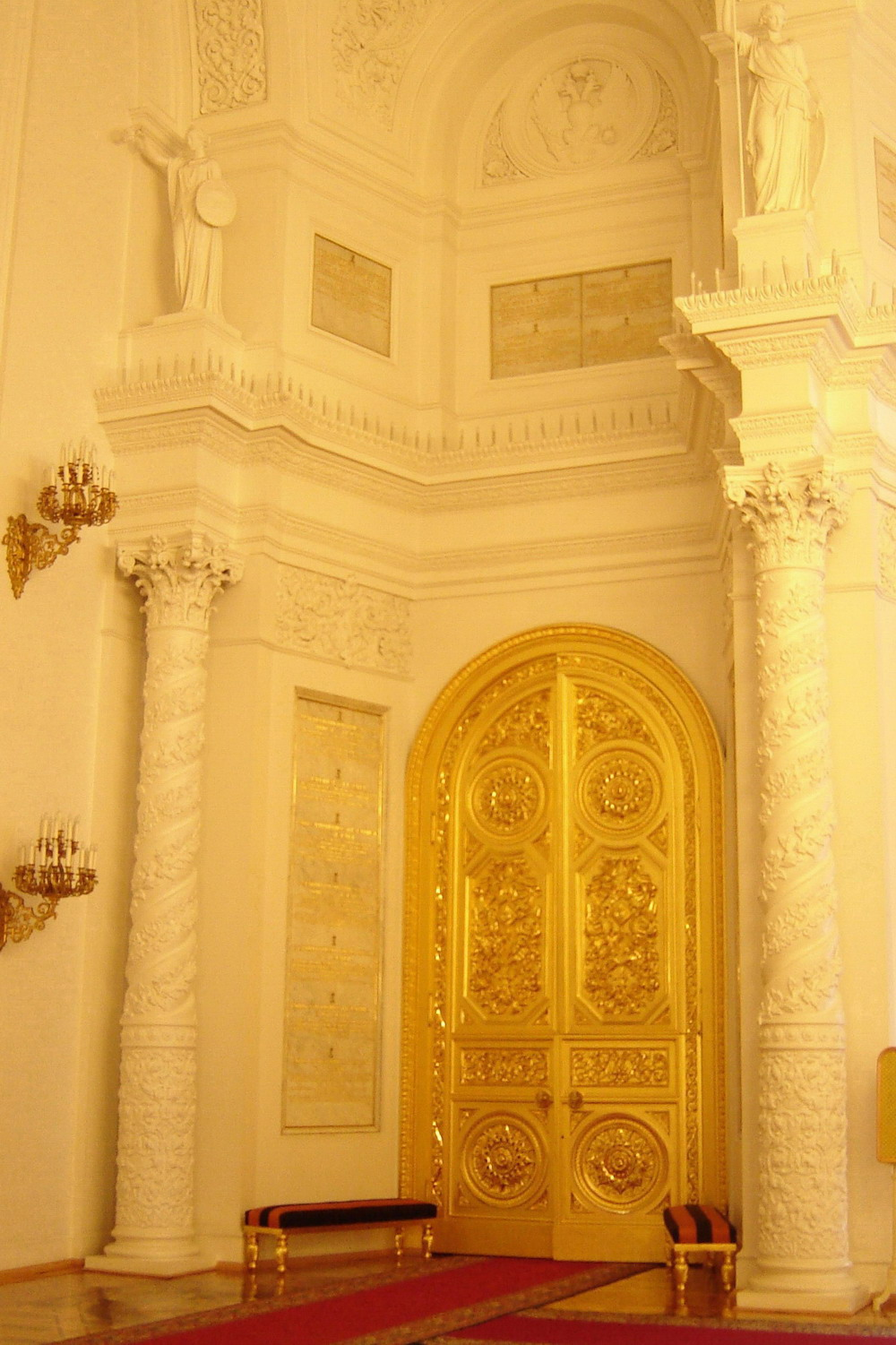 St. George hall in the Grand Kremlin Palace, Moscow, Russia